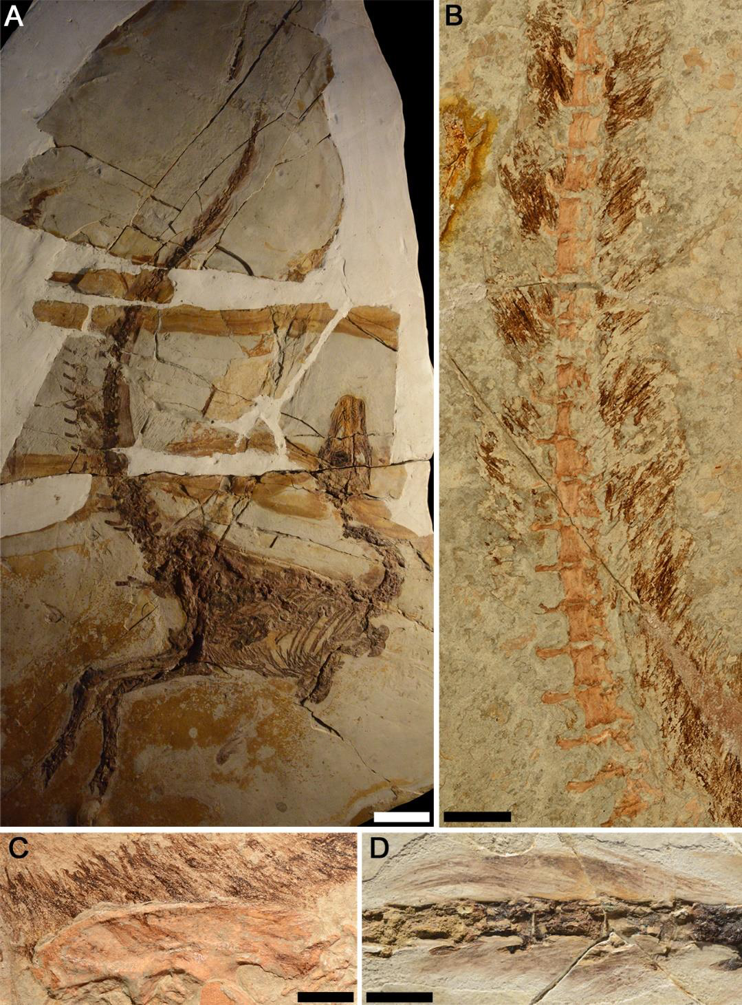 Plumage Features Preserved in Sinosauropteryx From the Lower Cretaceous Jehol Biota of Liaoning Province, China, (related to Plumage Distribution and Figure 1). (A) IVPP V12415: a whole specimen showing exceptional preservation of tail plumage but little preserved plumage over the body or skull in comparison to either NIGP 127586 or NIGP 127587. (B) The proximal tail region of NIGP 127586 showing the transition into the distinct banding pattern from an unpigmented ventral region and pigmented dorsal region indicative of a countershading pattern (see also Figure 1). (C) Detail of pigmented feathers above the hip girdle and overlying the ilium of NIGP 127586 (see also Figure 1). (D) A single band of pigmented plumage on the tail of IVPP V12415 showing the exceptional feather preservation absent from much of the rest of the specimen. Scale bars represent 50 mm in (A), 10 mm in (B) and (D) and 5 mm in (C)